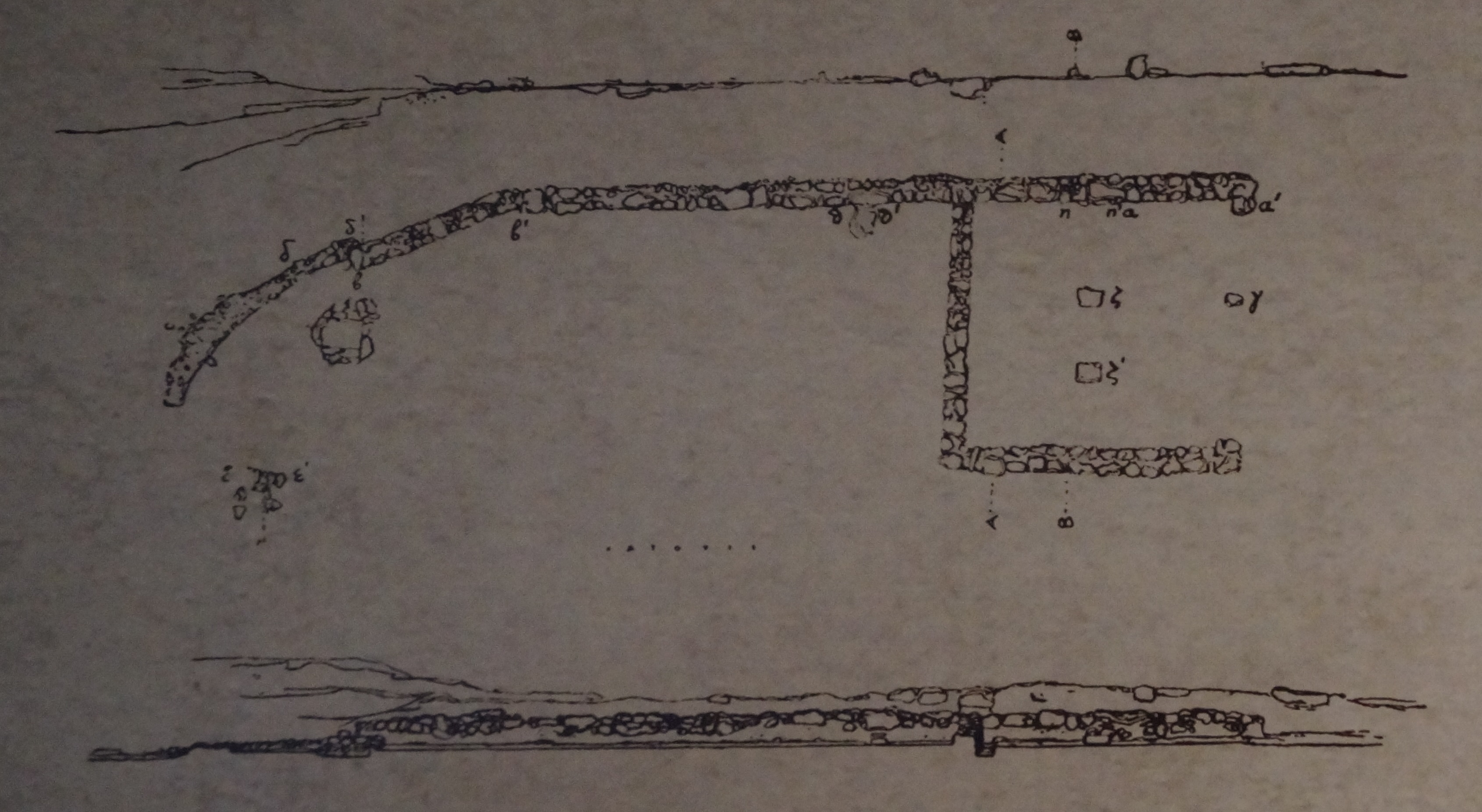 Corinth, Greece: Archaeological Museum: Plan of temple of Solygeia.